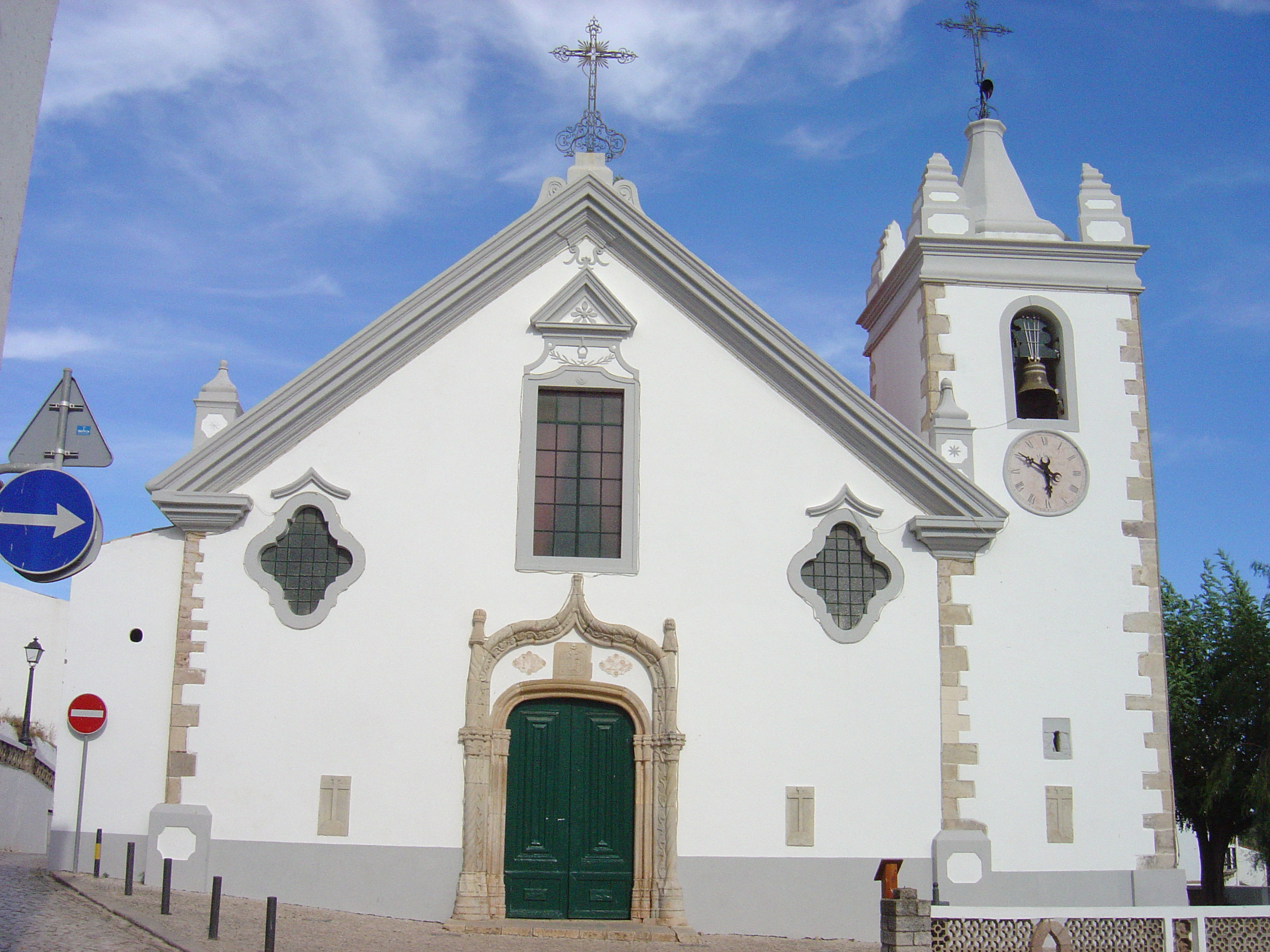 Alte, Loulé, Portugal